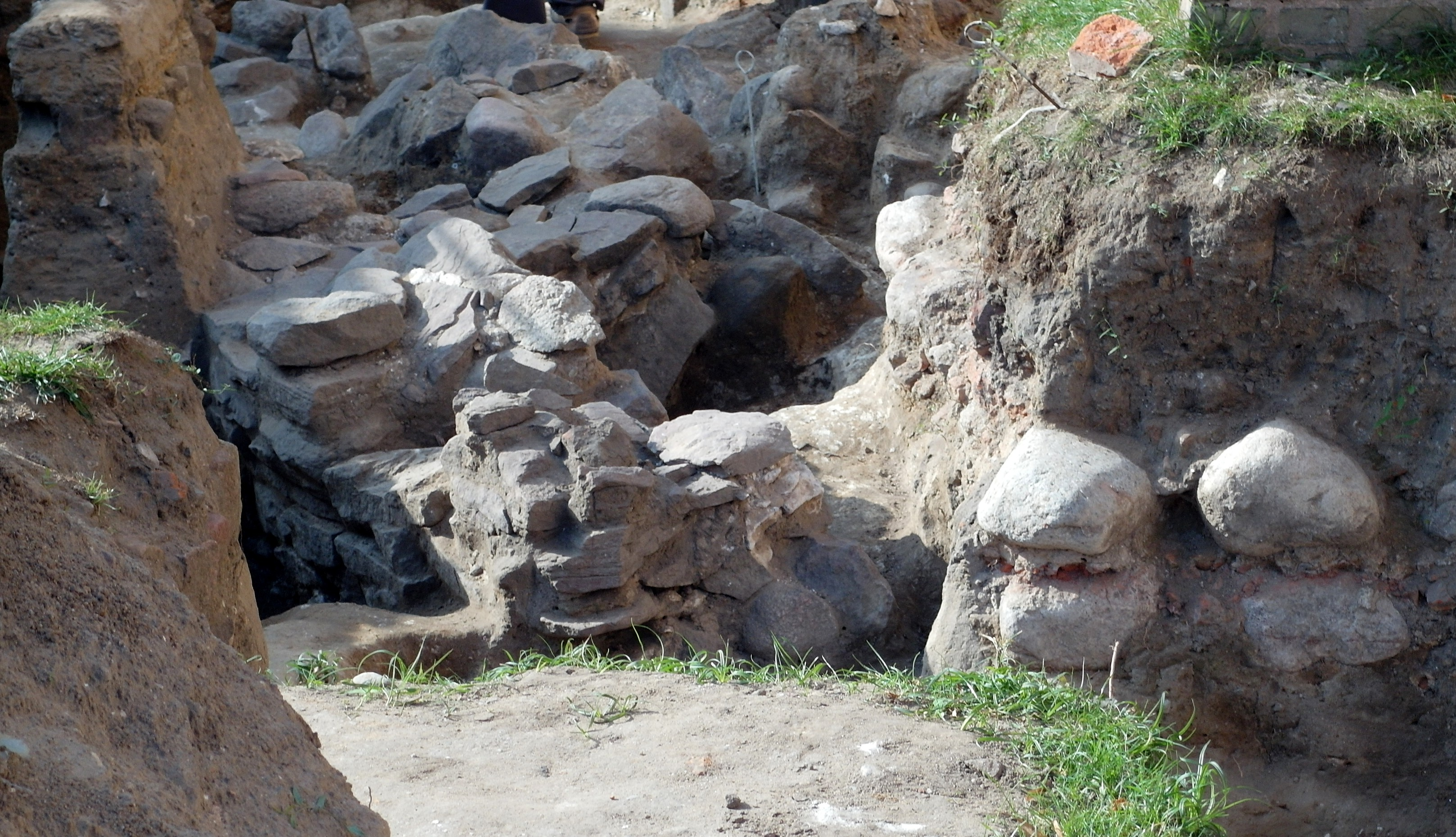 A fragment of a pre-Romance stone building discovered in Gniezno in 2019